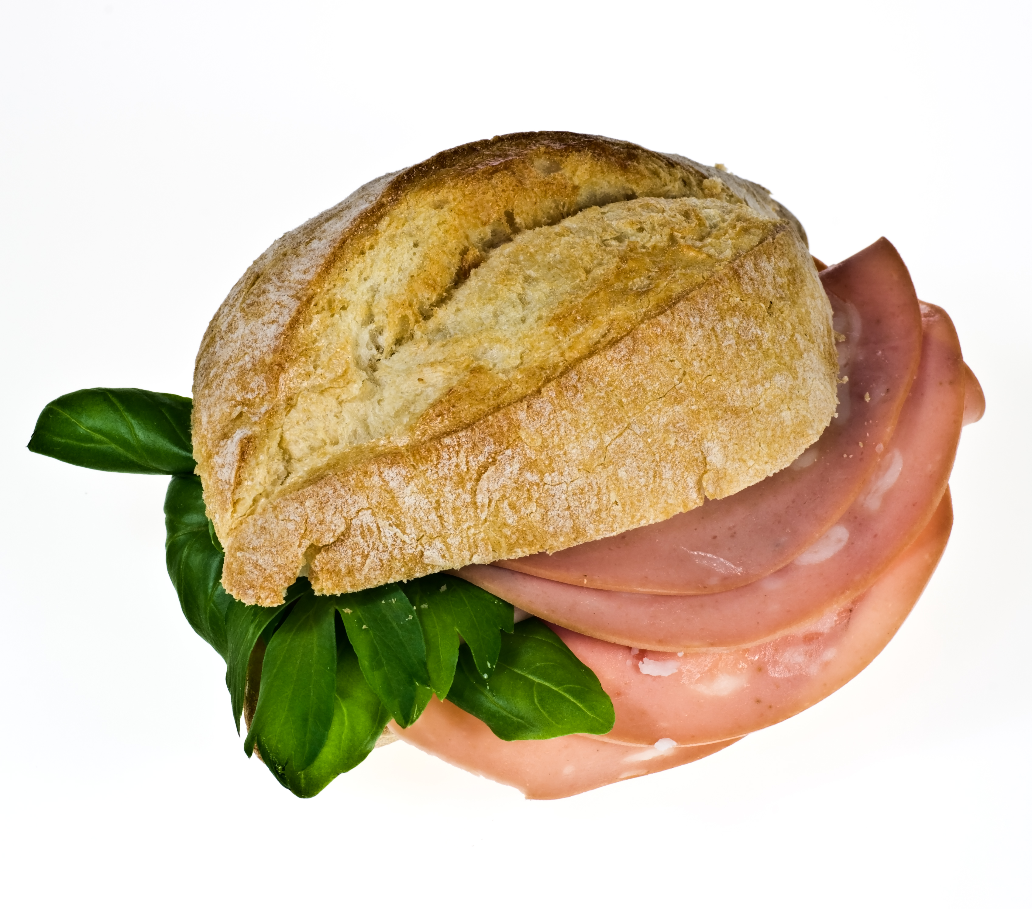 Mortadella sandwich